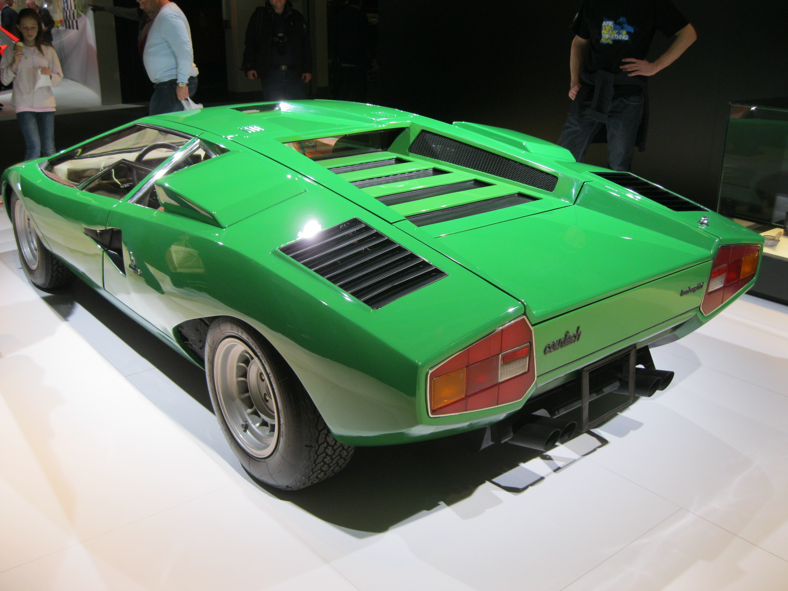 Early model Countach, spotted at Techno Classica Essen in 2012.